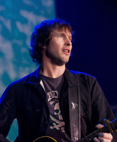 James Blunt playing Reading Rivermead 23rd Jan 2008